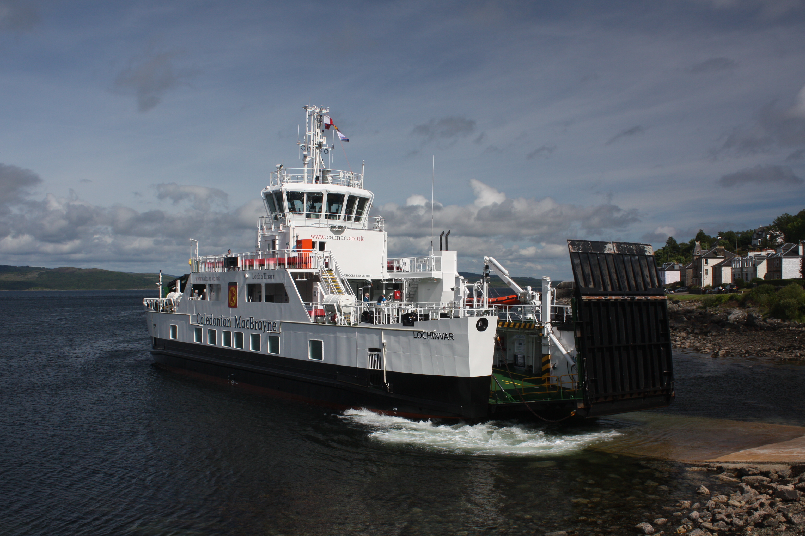 The new hybrid ferry departing Tarbert